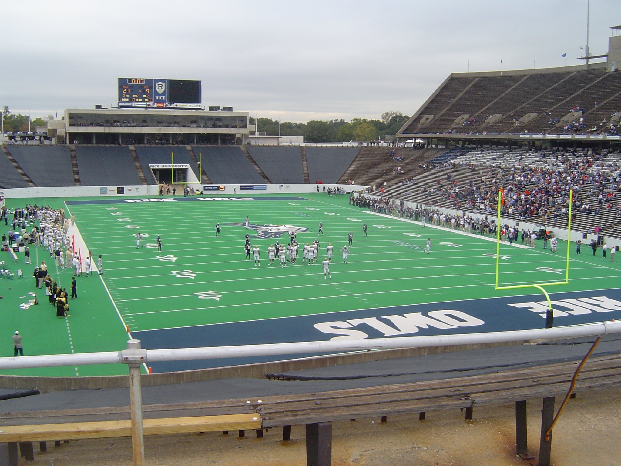 picture taken by user 19 November 2005, Rice vs. Central Florida (UCF 31, Rice 28) Category:Images of Houston, Texas